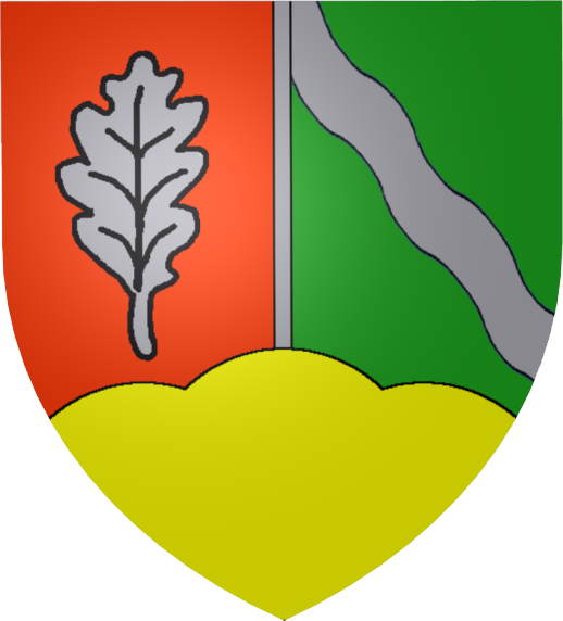 Sande (Westfalen) Coat of Arms